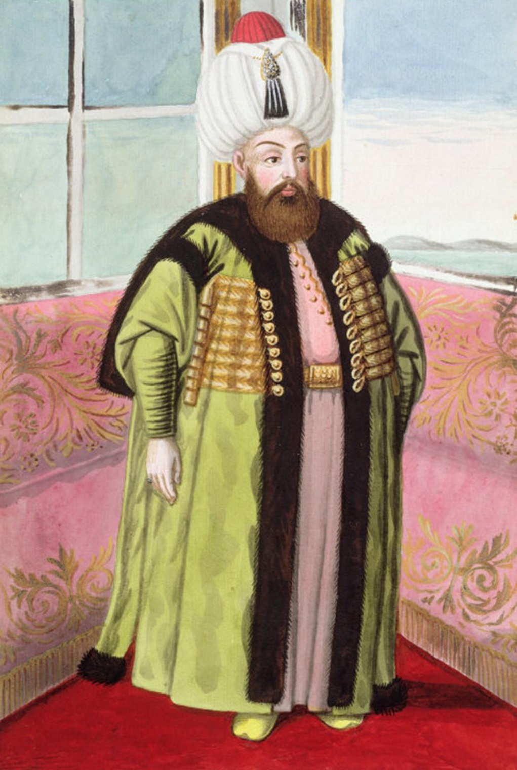 Portrait of Bayezid II, Sultan of the Ottoman Empire (1481-1512). The portrait has been printed using the Giclée process.